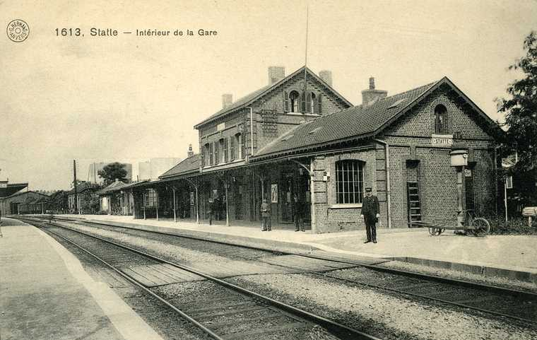 Database ID 38456 Institution University of Saskatchewan Archives Fonds/Collection S.R. Laycock fonds File/Item Reference LA-38 Postcard message Villers Le Peuplier, Belgium Jan 21 This is letter No 202 to you. Yesterday we moved from [Jallais?]. We were very comfortable there and I was not anxious to move. We came to this place which is eight kilos farther north. At first were were disgusted as it seeemed impossible to get private billets & not many of the boys have been able to get them. Don was lucky & found a swell place. The man Scope and content exterier view of the train station and tracks in Statte, Belgium. Physical description/extent 1 postcard; 8.75x13.75cm Date produced [19--?] Date Range(s) 1910-1919 Photographer Hotel d'Emmaus, Maredsous. Copyright holder Public domain Subjects Towns and Cities Transportation -- Train Language of postcard text English Language of card French Postcard style divided back Postcard media real photograph Place - image Statte, Belgium Permanent Link